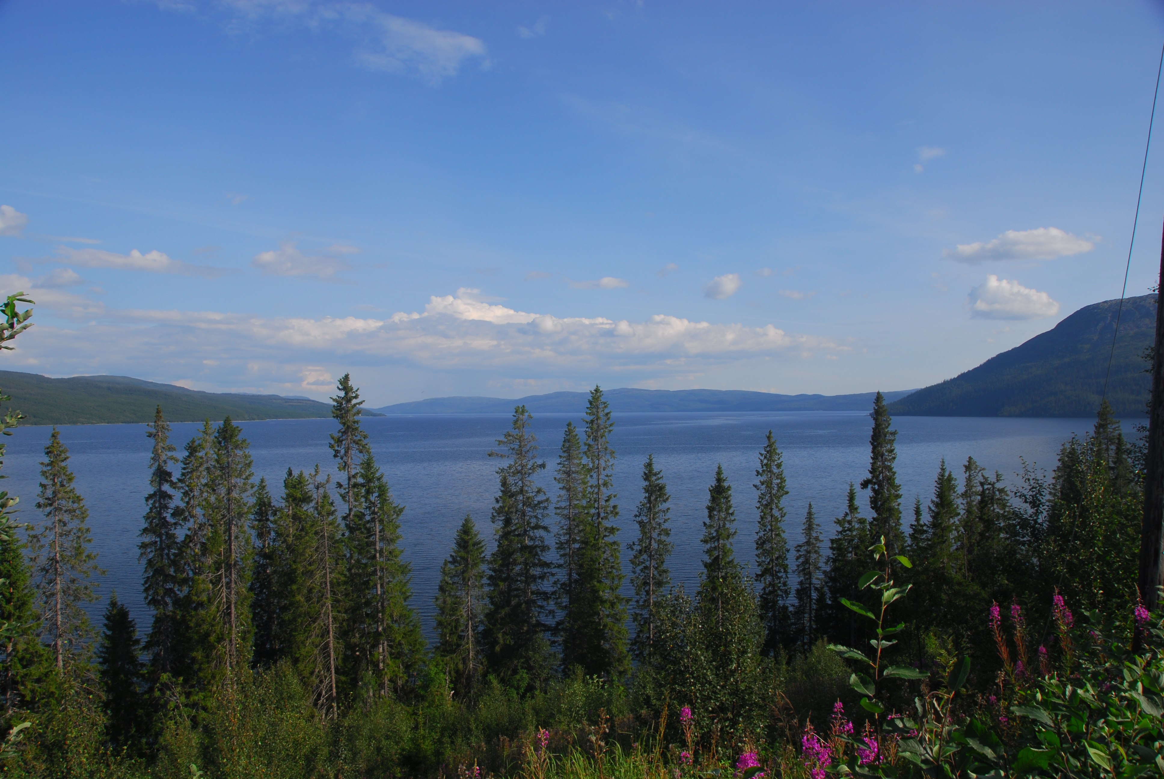 Tunnsjøen in Røyrvik, Norway, as seen from the national road 764.